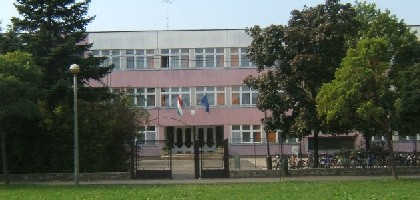 Gyulai Fifth Number Elementary School and Sport School